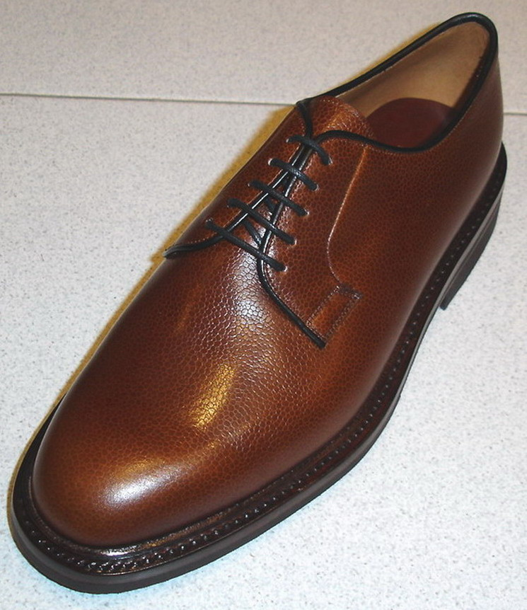 Blucher (shoemodel) from Grenson